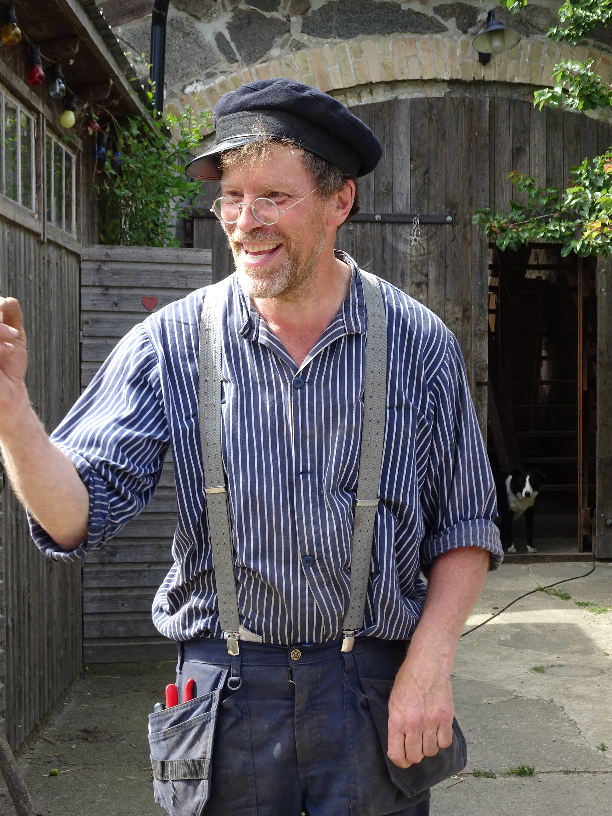 Gustav Mandelmann a Swedish gardener, known from TV. He lives in Rörum, Simrishamn, Sweden.